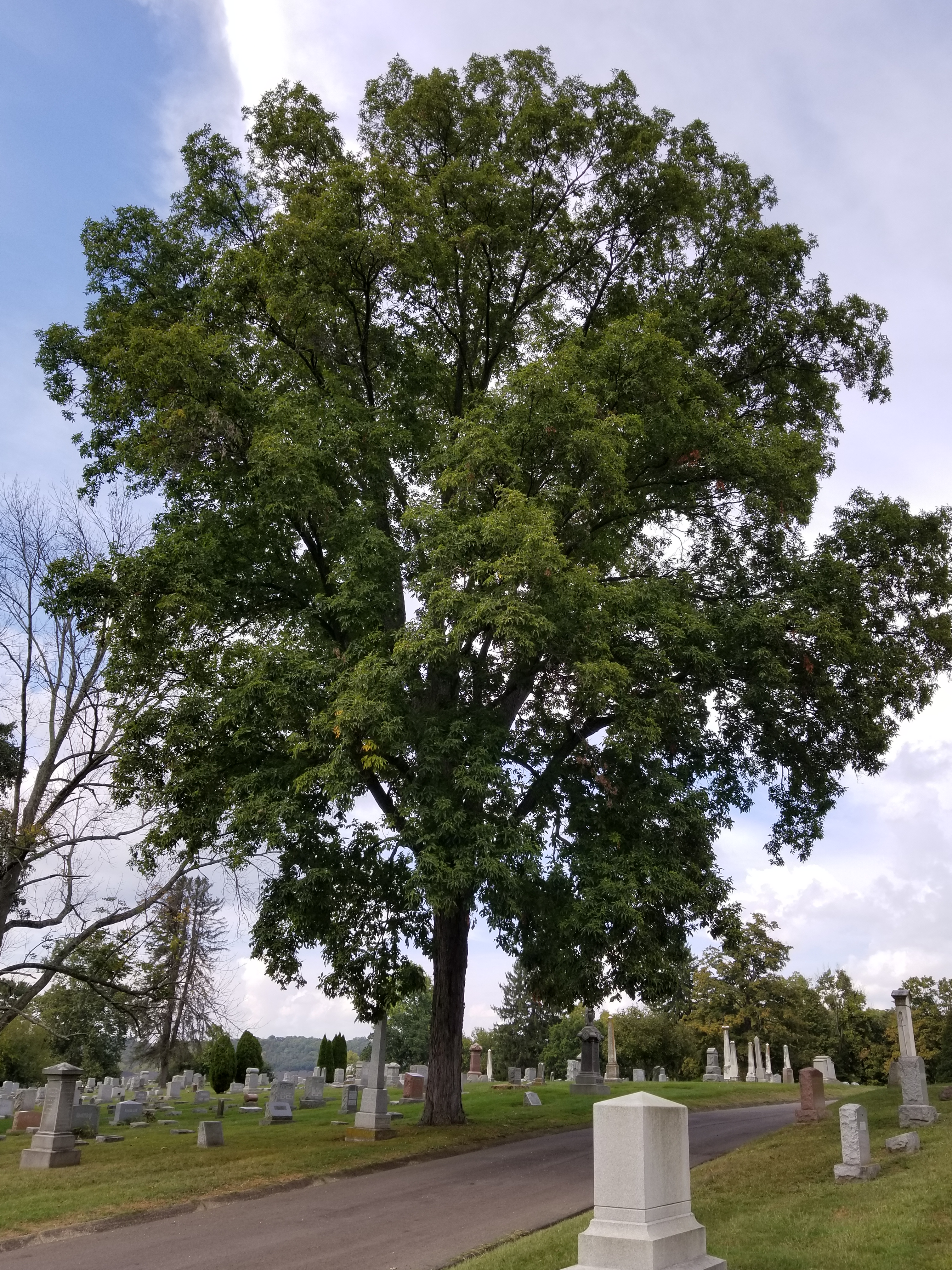 Mature Carya ovalis, red hickory, at West Union Street Cemetery, Athens, Ohio